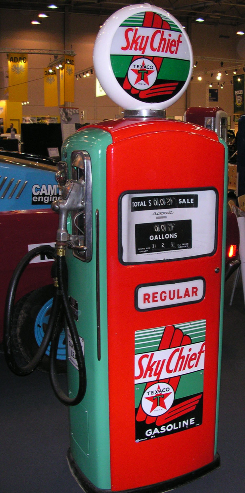 Essen Techno-Classica 2007, Texaco Skychief petrol pump